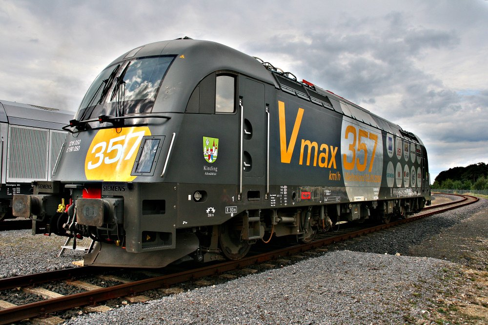 The ÖBB 1216 050-5 world-record locomotive at the Siemens test center in Wegberg-Wildenrath, Germany